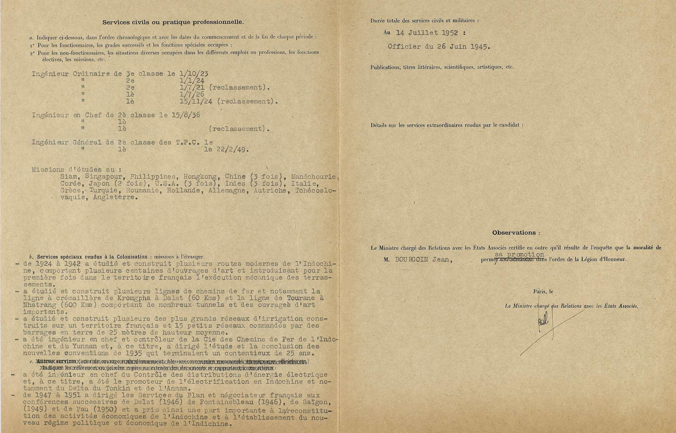 République française. Ministère des relations avec les états associés. Légion d’Honneur Commandeur. Notice de renseignements de Jean Lucien Joseph Bourgoin.